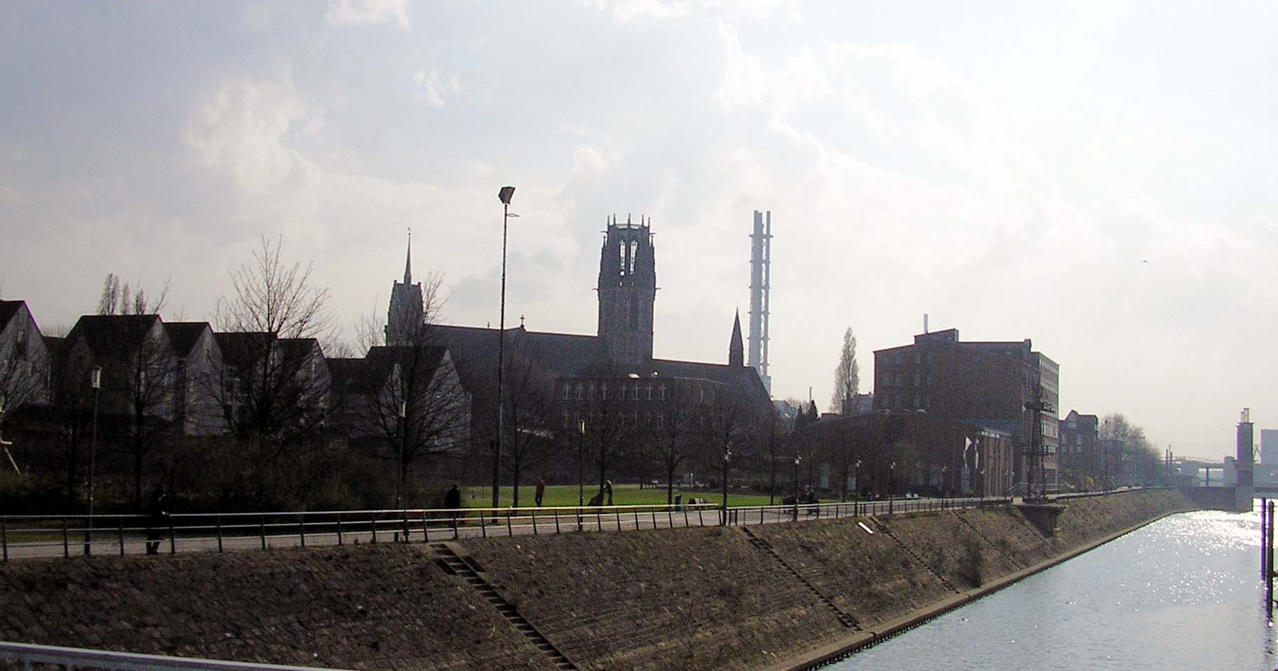 Own picture